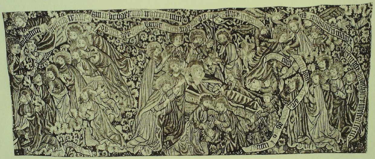 Large fragment of carpet from about 1470 made in Poor Clares monastery Gnadental in Basel but found after the reformation in Pfaffenweiler, Baden-Württemberg, Germany, now in Fürstenberg Collection, Donaueschingen